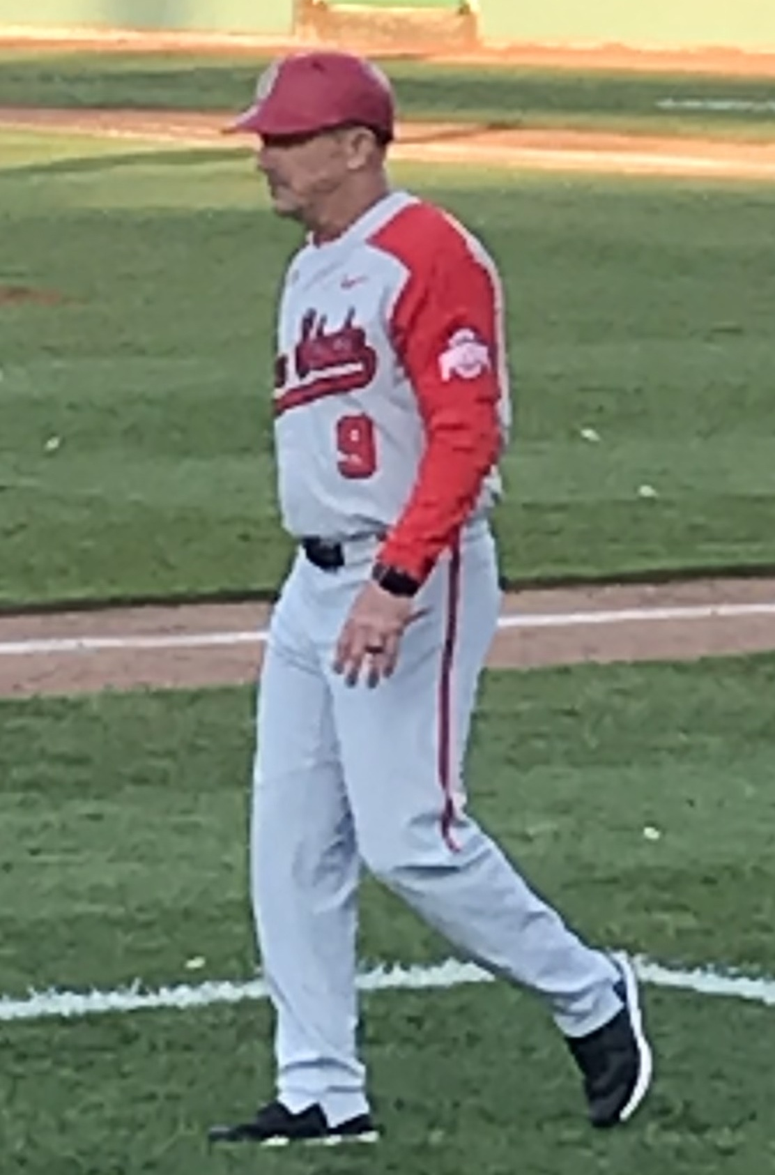 Greg Beals coaching third base